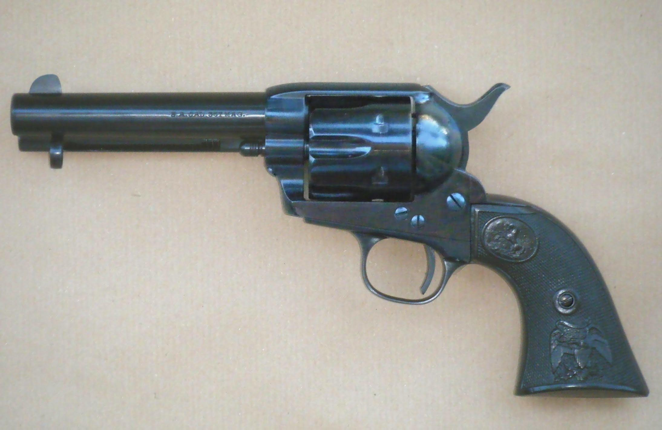 Colt Single Action Army black (A. Uberti made)